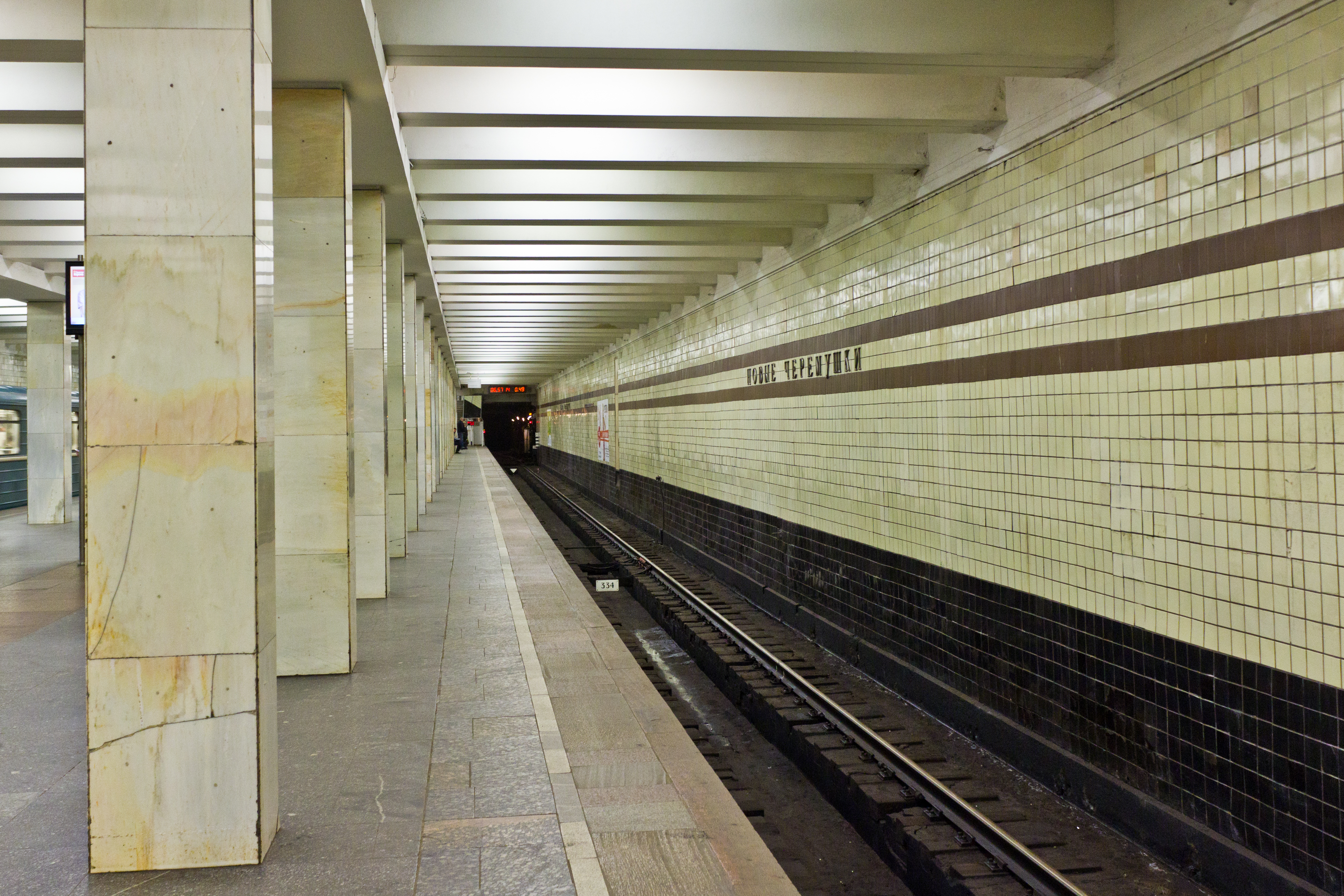 Noviye Cheryomushki Moscow Metro station.